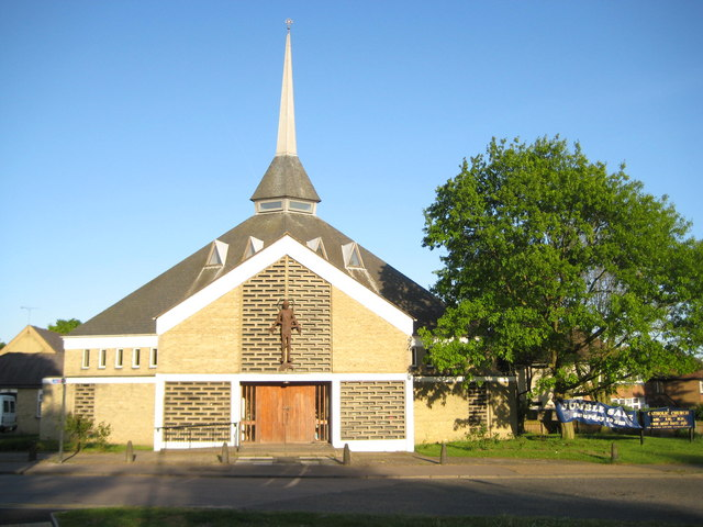 Roman Catholic Church of St Bartholomew the Apostle, Vesta Avenue, St Julians, St Albans, Hertfordshire, seen from west-northwest